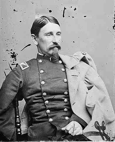 Colonel George Lamb Willard (125NY) killed at Gettysbyrg